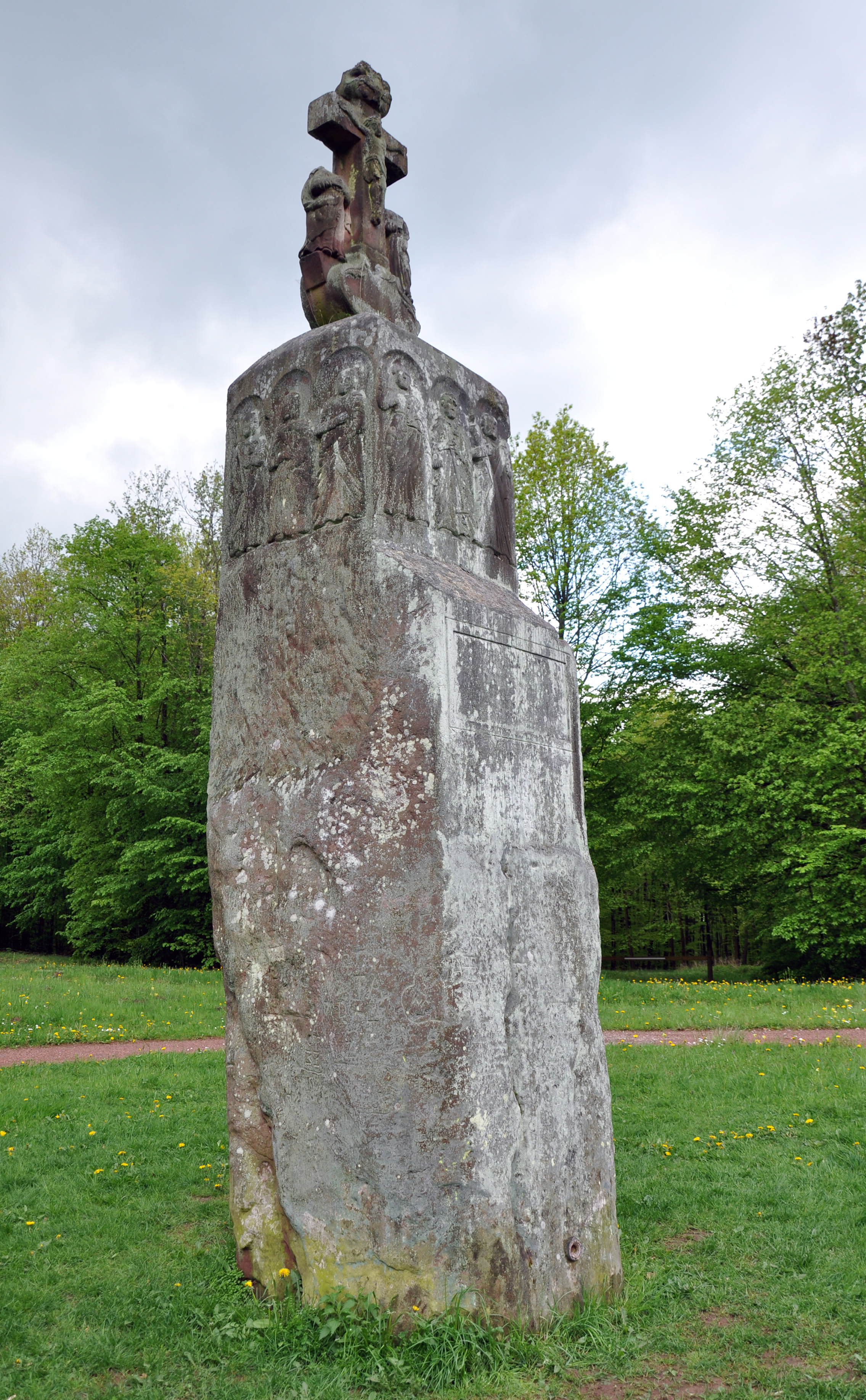 The Pierre des 12 Apôtres ( Stone of the 12 Apostles ), also called Breitenstein, is a menhir near Meisenthal, which was used as a frontier stone and then was carved into a wayside cross during the 18th century.